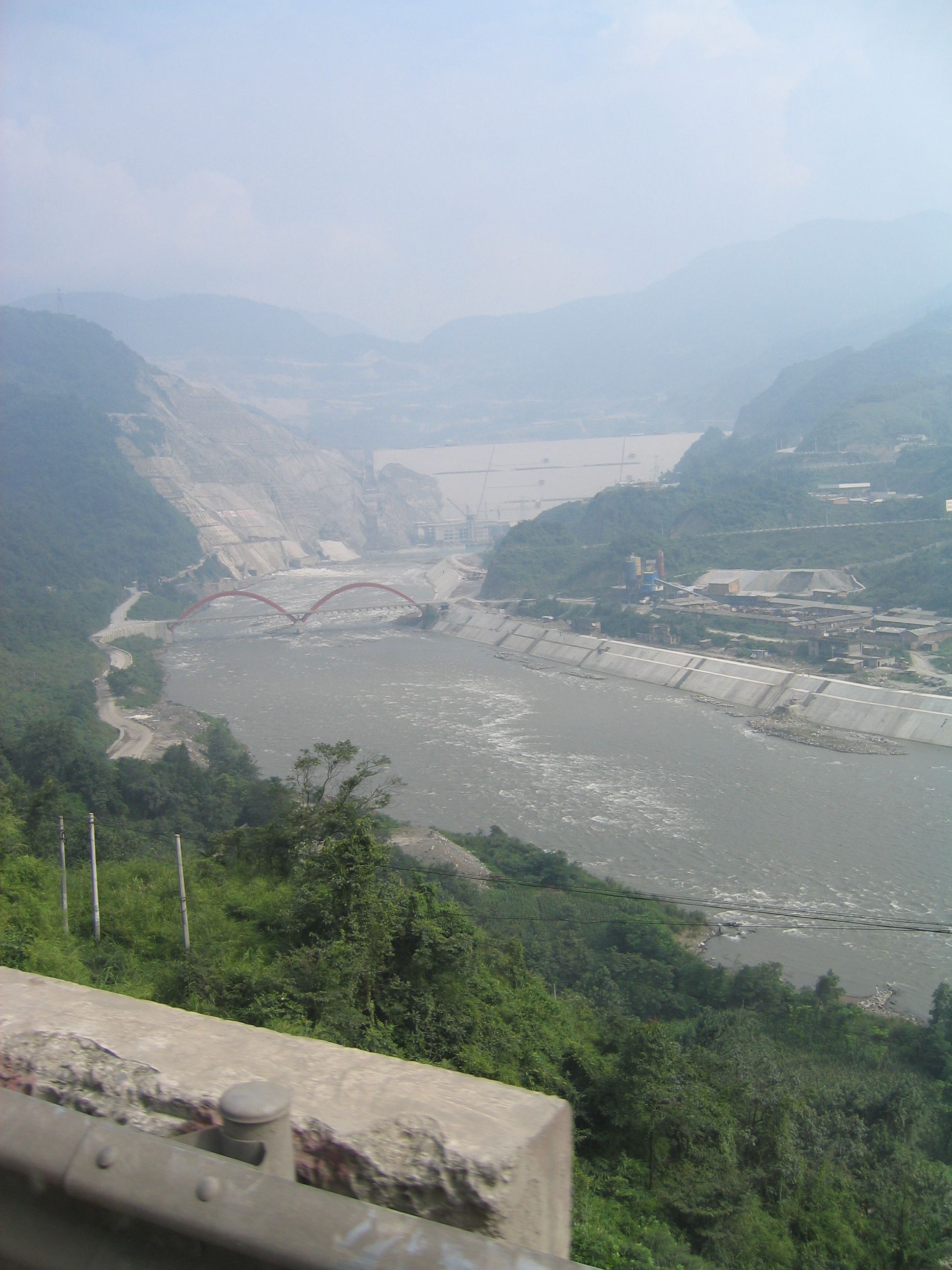 driving by the new Zipingpu Dam in Dujiangyan